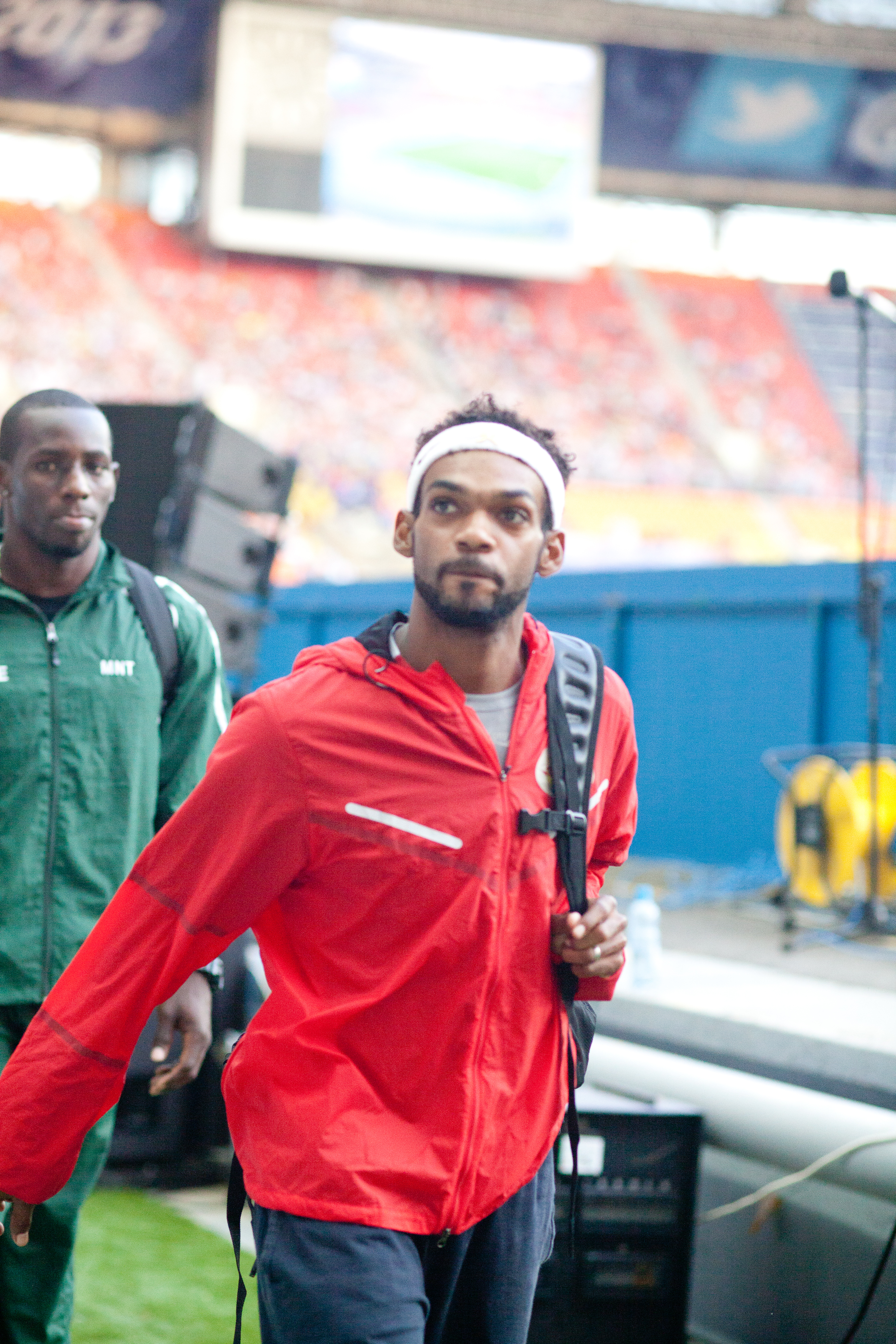 Barakat Mubarak Al-Harthi during 2013 World Championships in Athletics in Moscow.